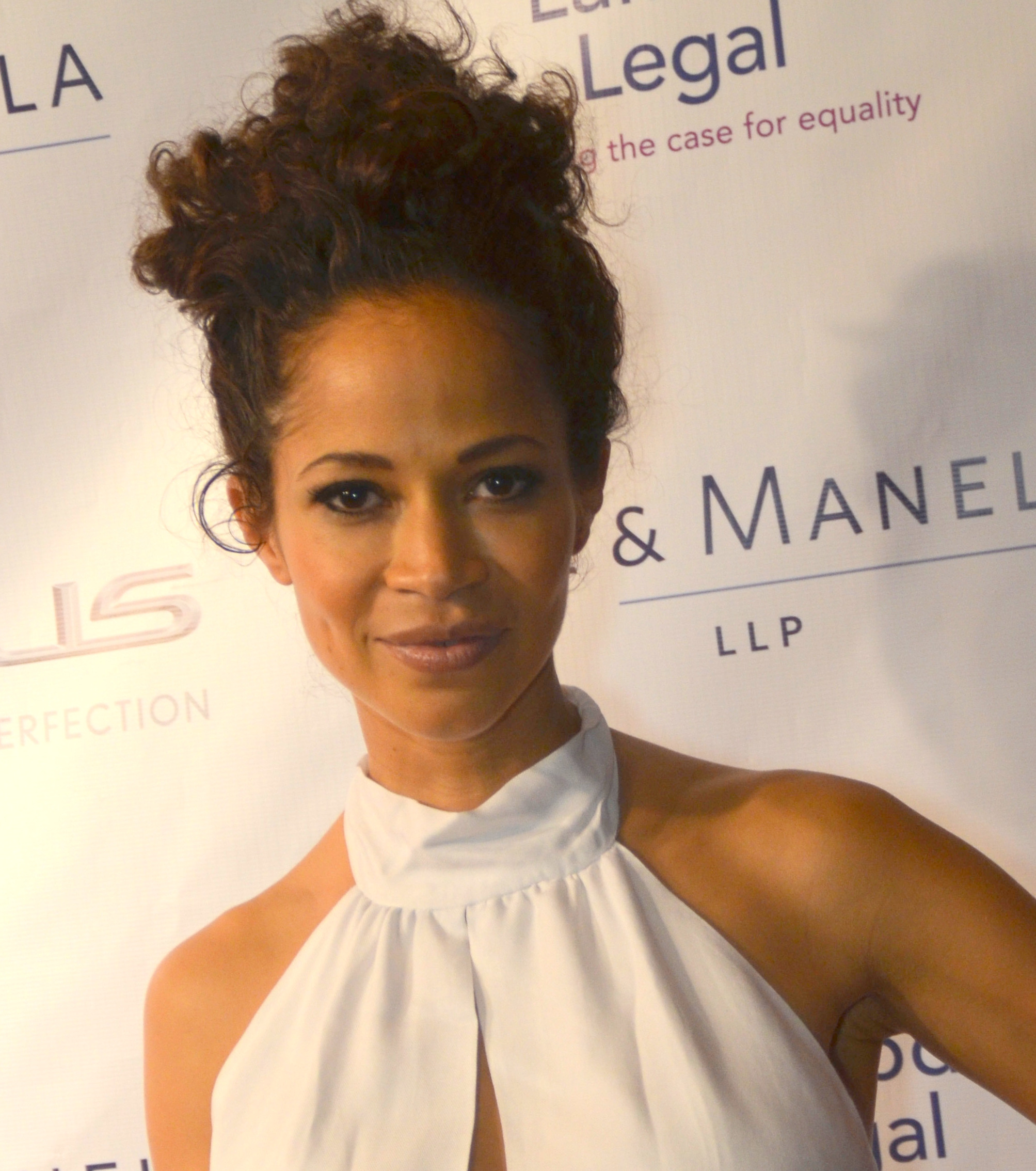 Sherri Saum Mingle Media TV and Red Carpet Report host Ashley Harrington were invited to cover Lambda Legal's 2014 West Coast Liberty Awards Red Carpet Fundraising Gala Hosted by Cheyenne Jackson at the Beverly Wilshire Four Seasons Hotel.